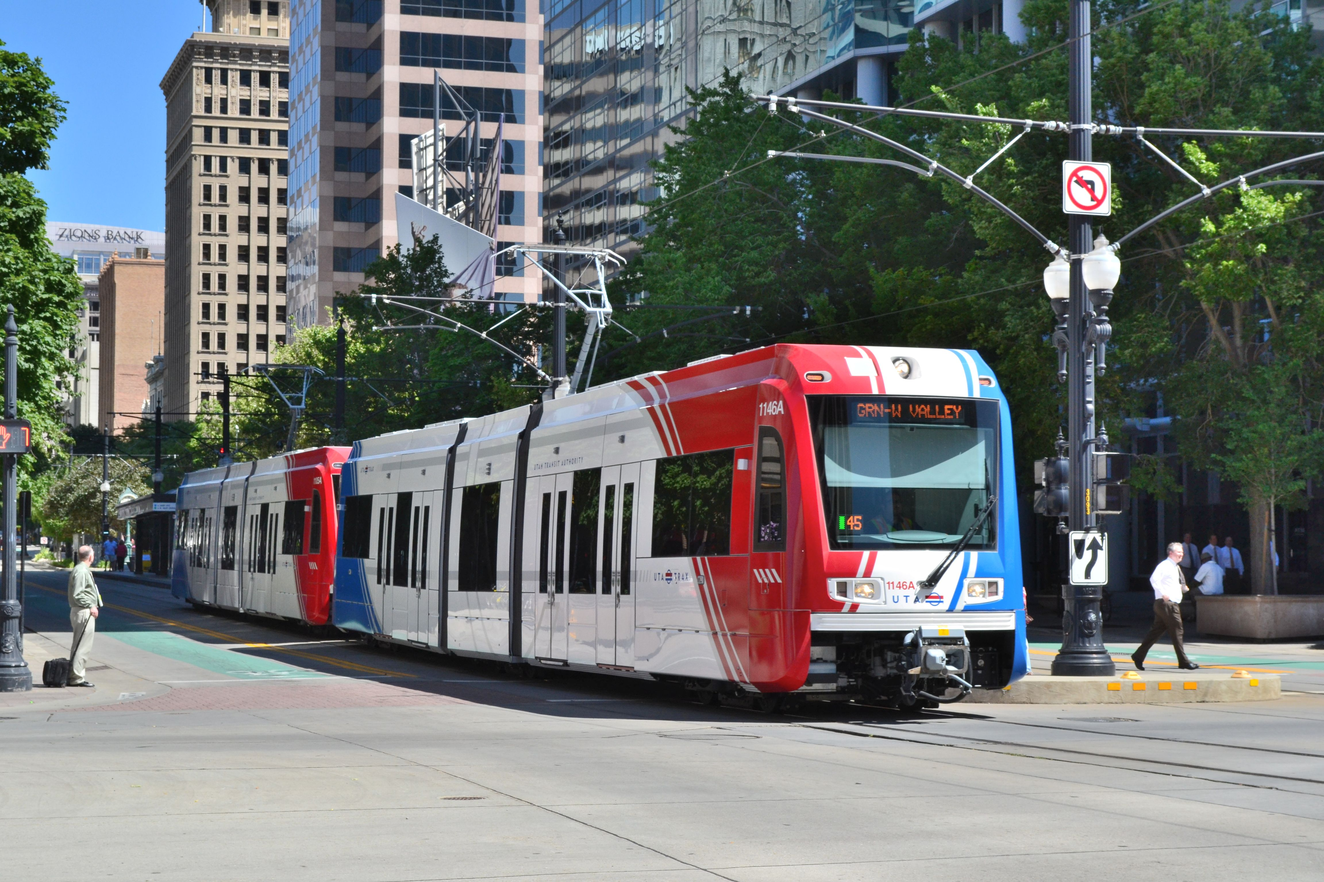 A Utah Transit Authority Trax light rail vehicle traveling south on the green line in downtown Salt Lake City. The LRV is a Siemens S70.